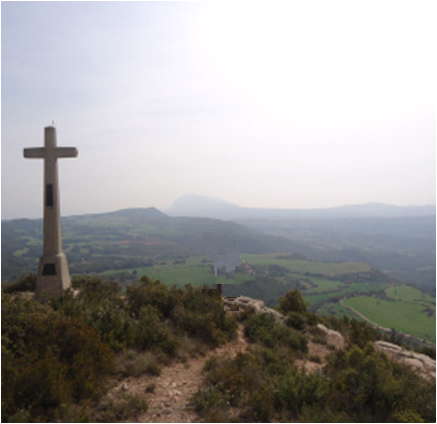 Mountain Les Tres Alzines (831m)